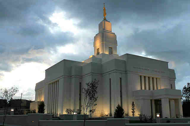 Photo of the Quetzaltenango Guatemala Temple of The Church of Jesus Christ of Latter-day Saints.